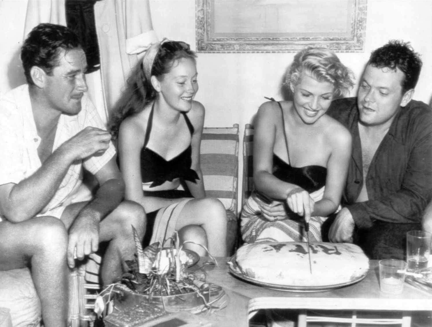 Photograph of a celebration of Rita Hayworth's 28th birthday, on board the Zaca, during the filming of The Lady from Shanghai Newspaper caption reads as follows:RITA HAYWORTH HAS BIRTHDAYAboard Errol Flynn's yacht, Zaca, anchored off Acapulco, Mexico, Rita Hayworth, film actress, celebrated her birthday. Left to right: Errol Flynn, his wife Nora [Eddington], Rita and her husband Orson Wells [sic]. Rita and Orson are making a picture near Acapulco. Hayworth's birthdate was October 17, 1918.